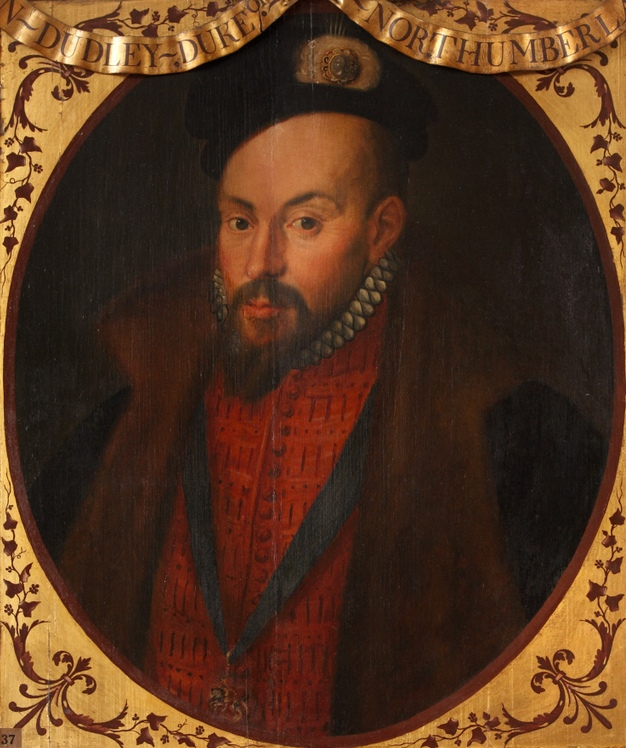 Portrait of John Dudley, Duke of Northumberland. Oil on panel, 690 x 543 mm. English school, 1605–1608. On show at Knole, Kent (National Trust collections, NT 129763).